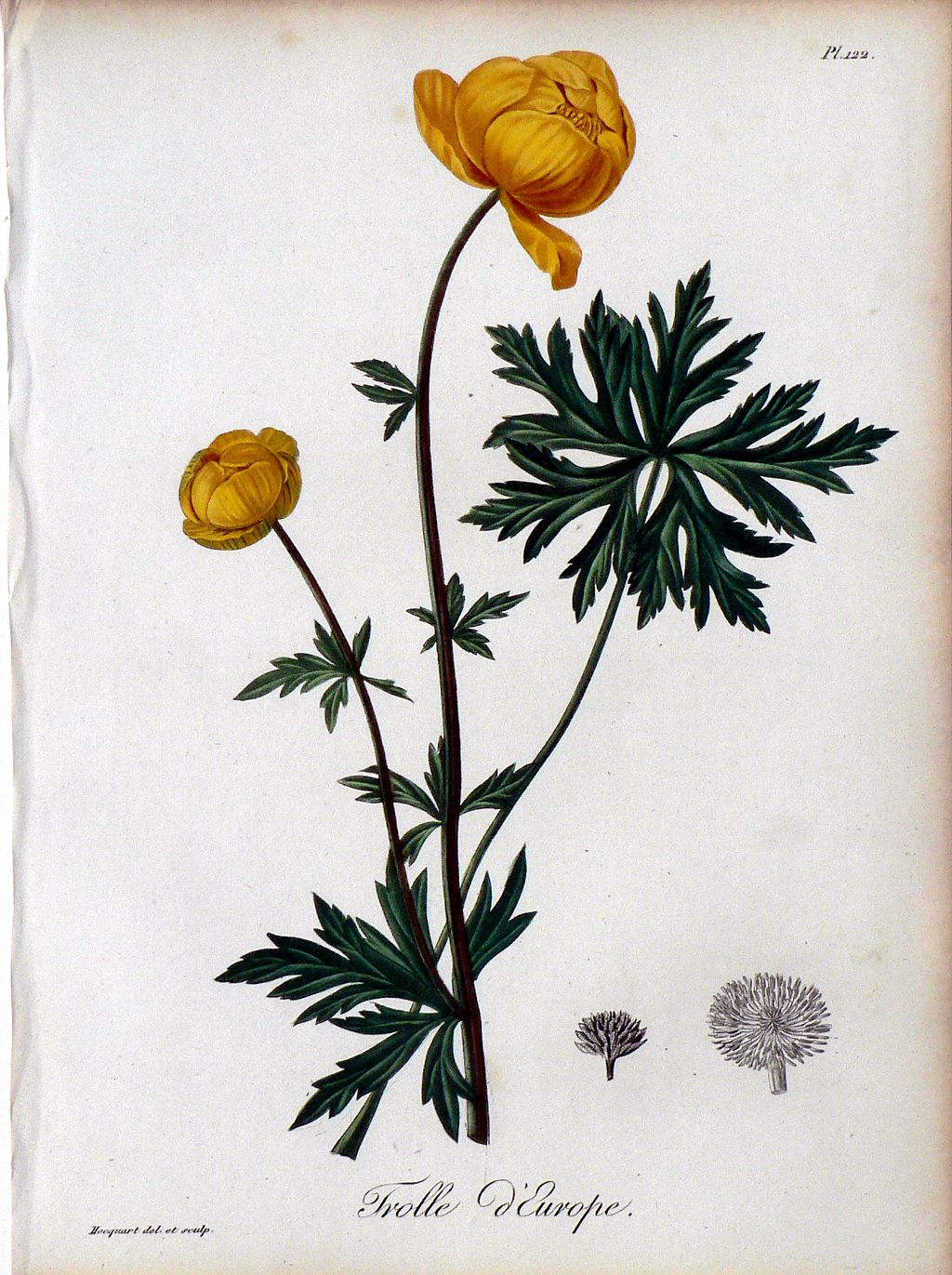 Plate from "Phytographie médicale" (1821-24)